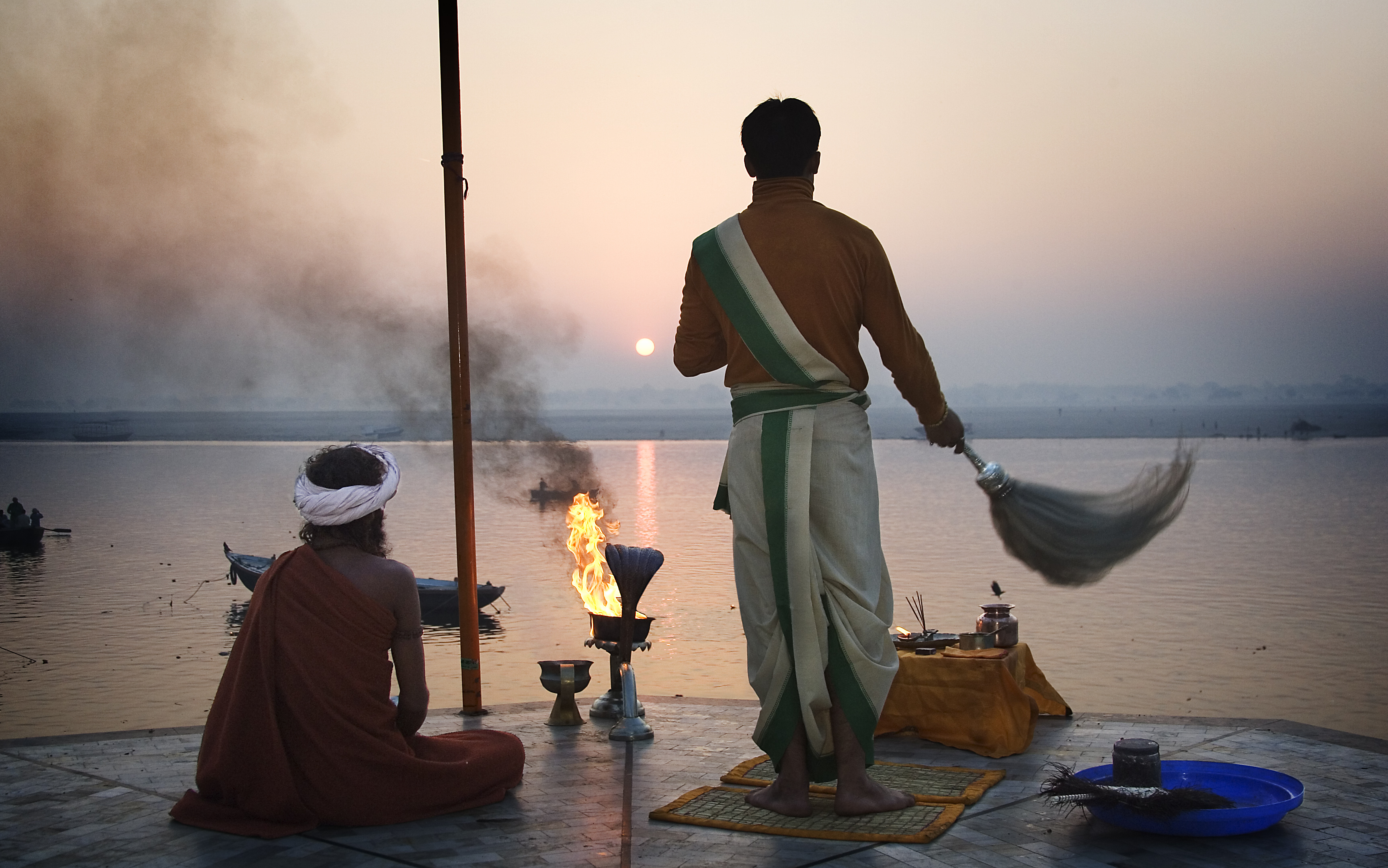 Hindu priest saluting the sun in the Ganges Varanasi Benares India